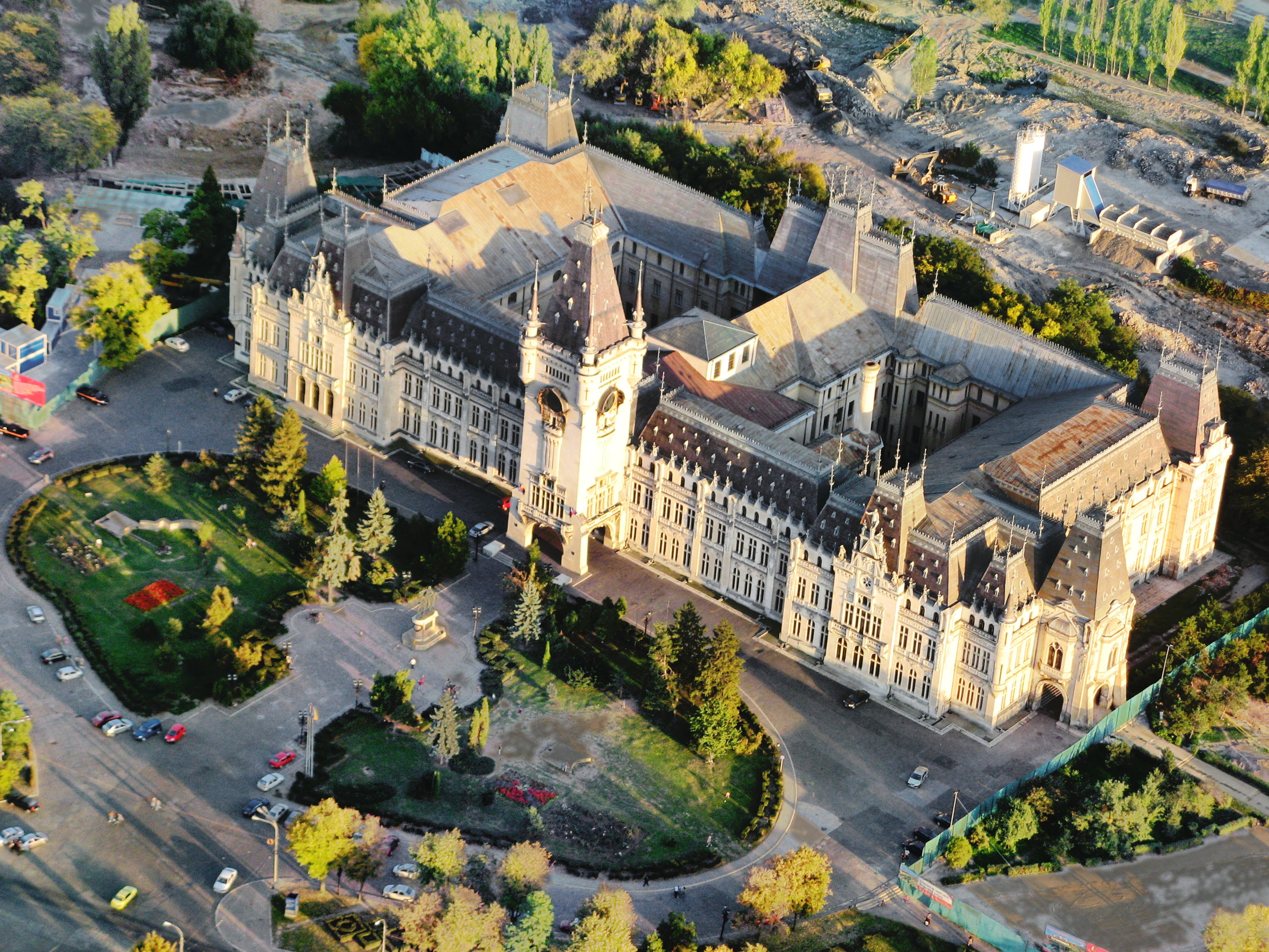 Iasi , Palace of Culture , Iaşi , RomaniaRomână: Iaşi , Palatul Culturii , Iaşi , România